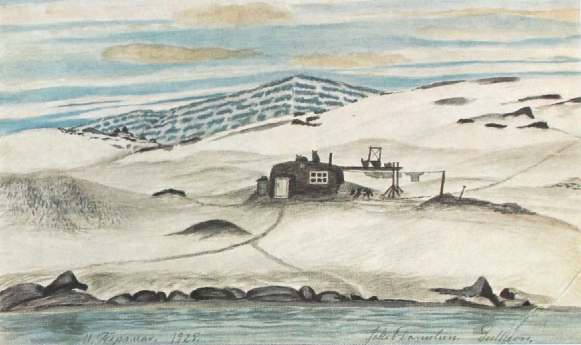 Jakob Danielsen - Birth house (aquarell)